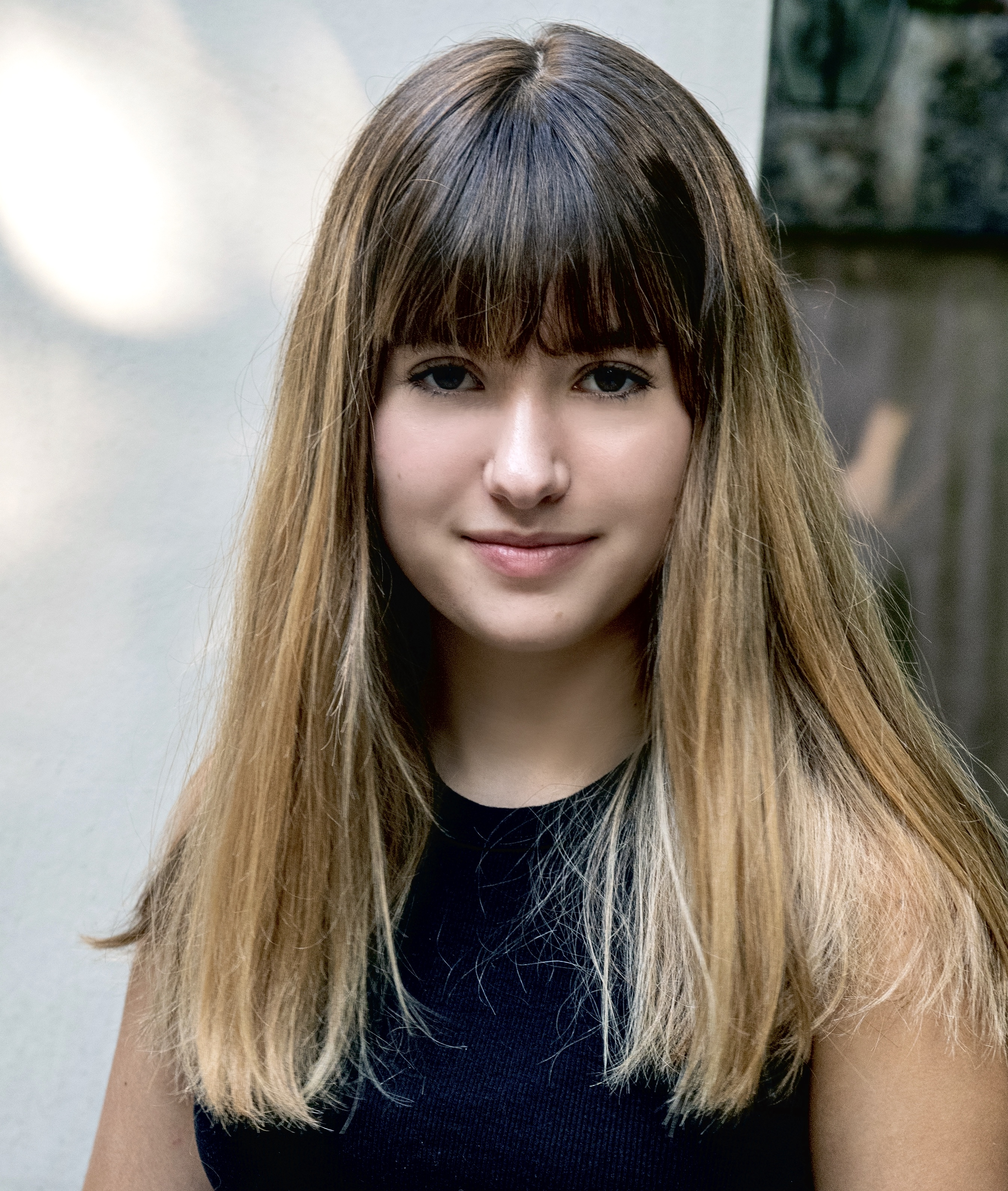 Evie Dolan Headshot Age 16